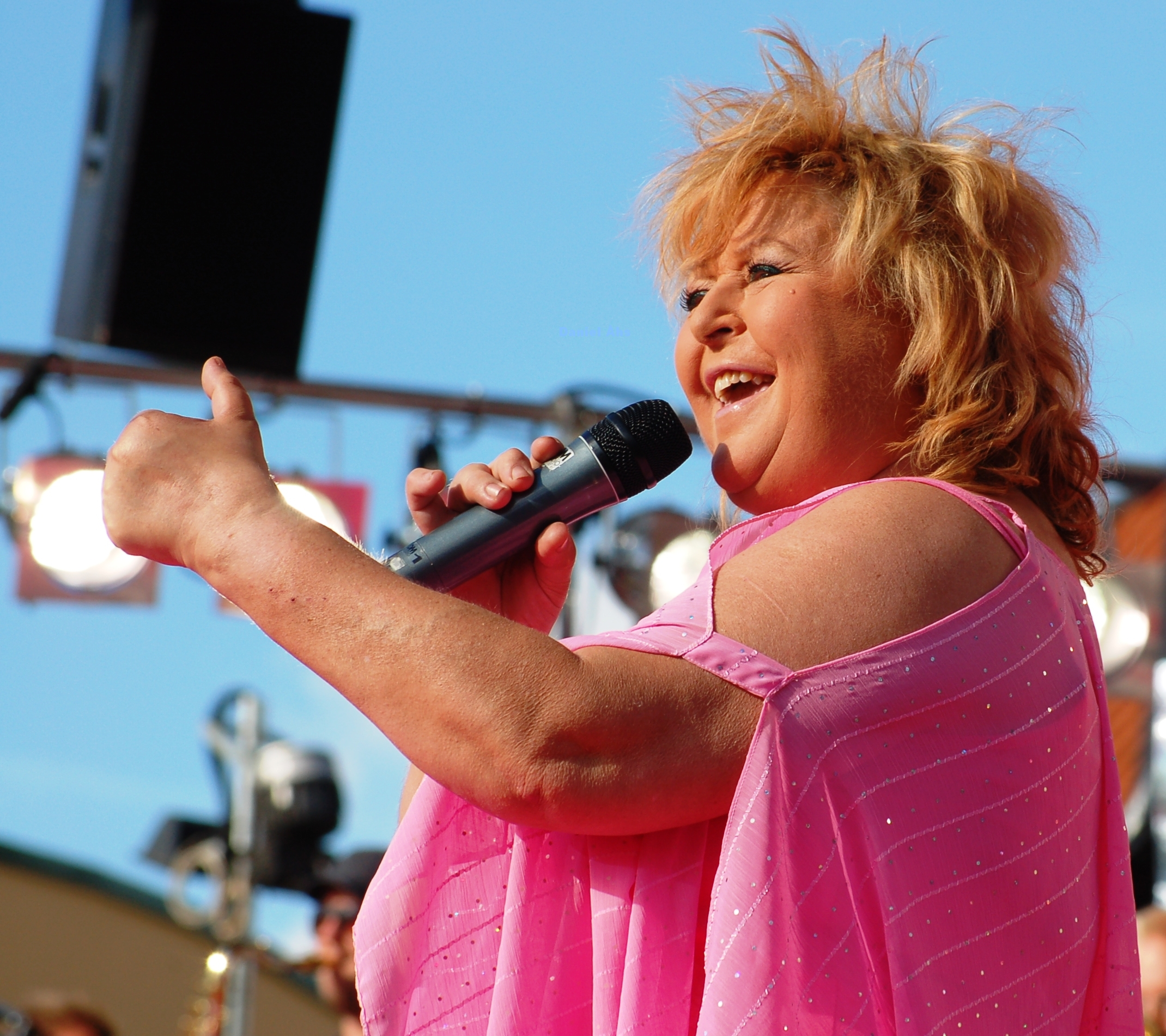 Kikki Danielsson at Gröna Lund, Sommarkrysset